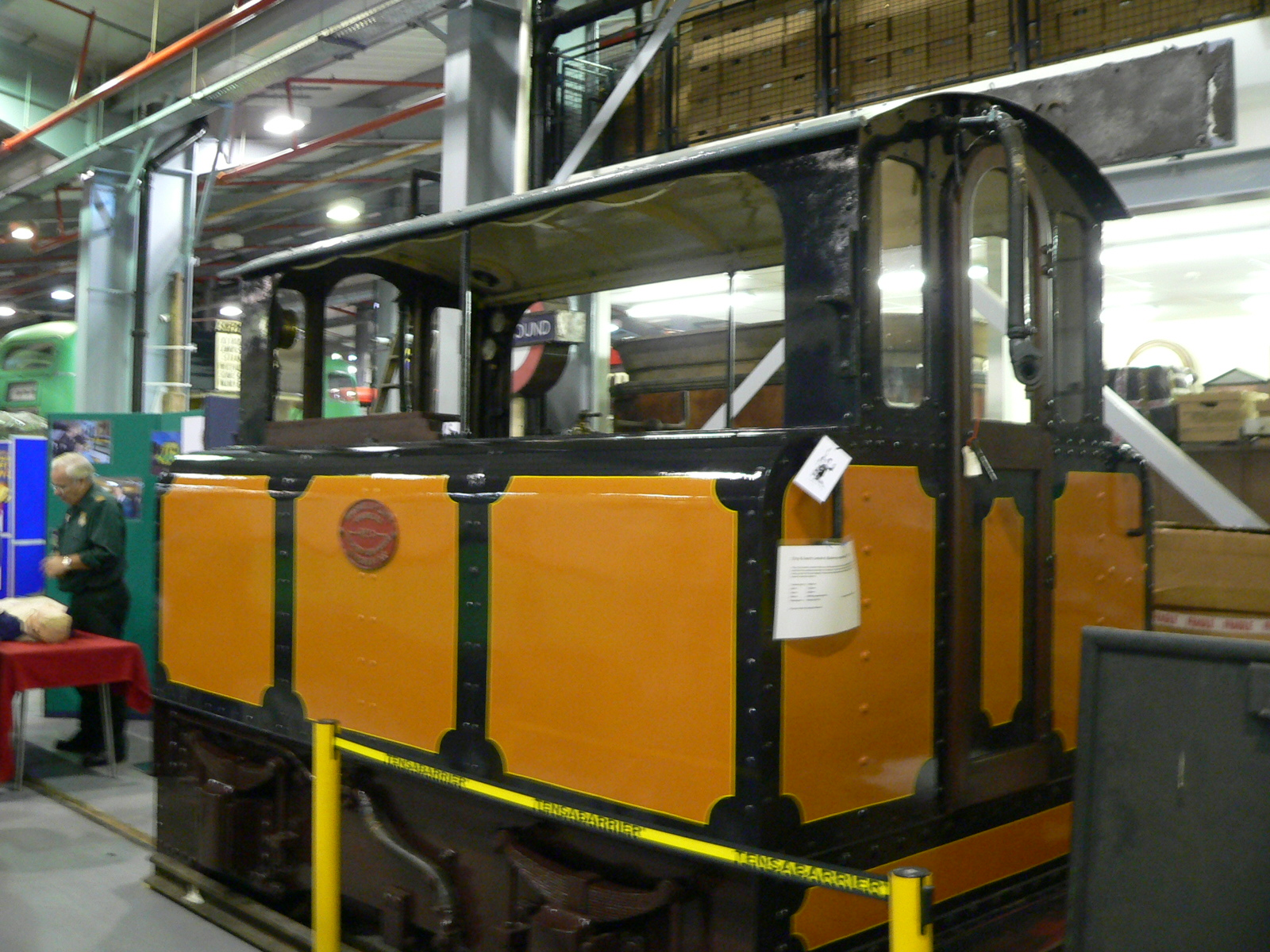 City & South London Railway locomotive number 13, dating from 1890, preserved at London's Transport Museum Depot.